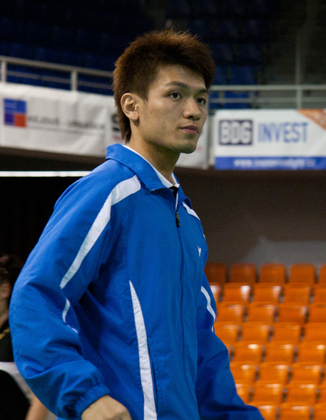 Huang Po-Yi in Czech International 2011.